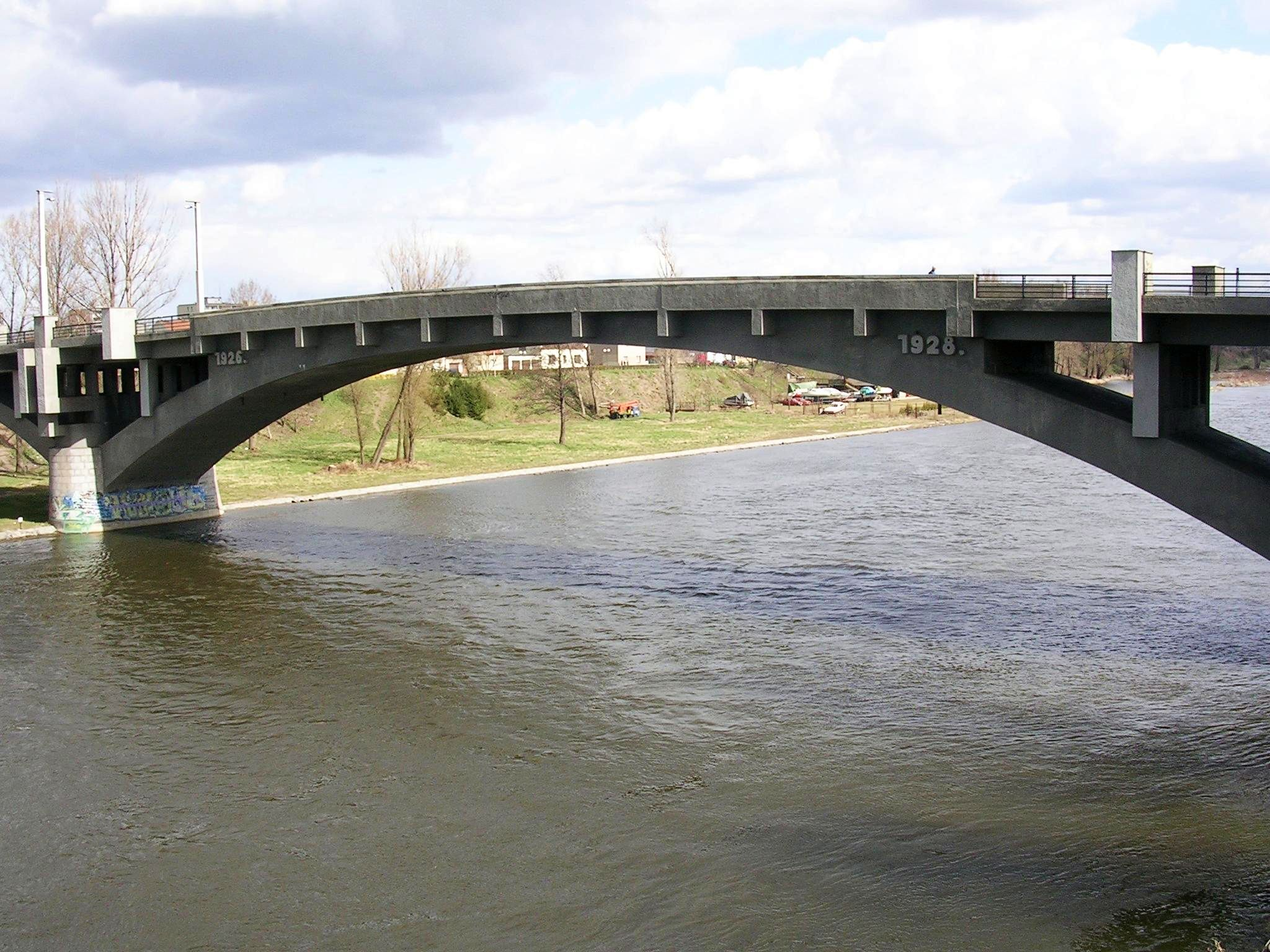 Kralupy nad Vltavou, the Czech Republic.